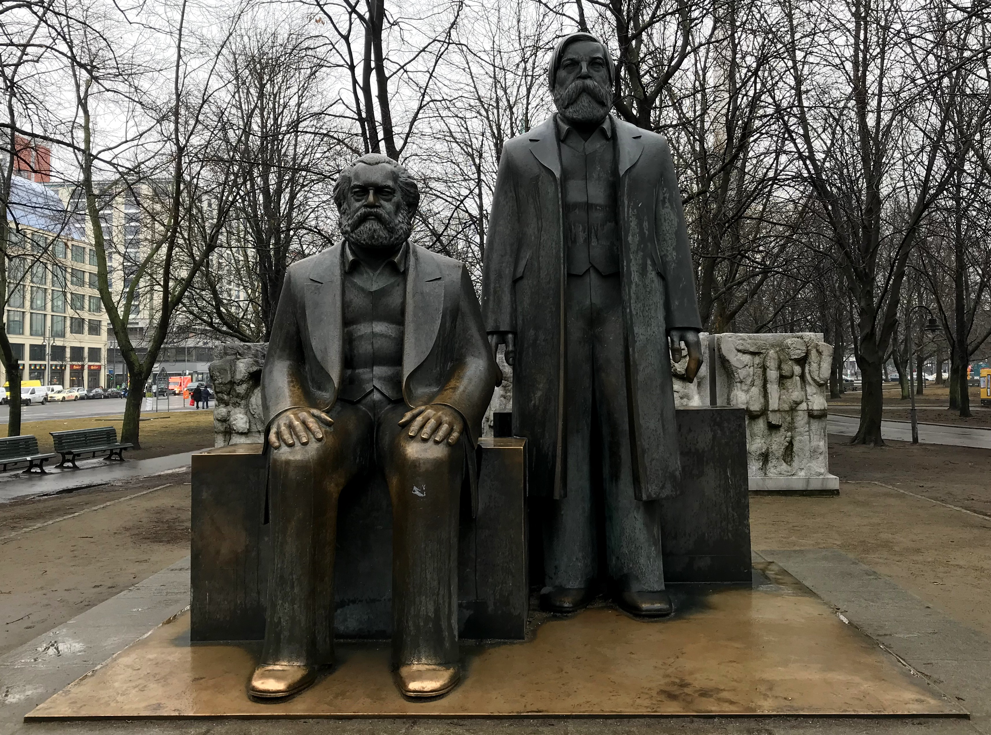 Karl Marx anf Friedrich Engels statue in Berlin